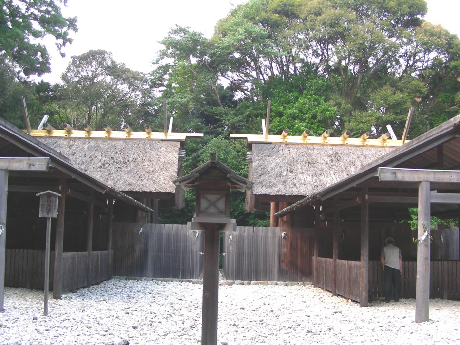 The Betsugu Tsukiyomi-no-miya Sanctuary of Kotaijingu(Naiku) at Ise city, Mie Prf. ,Japan.